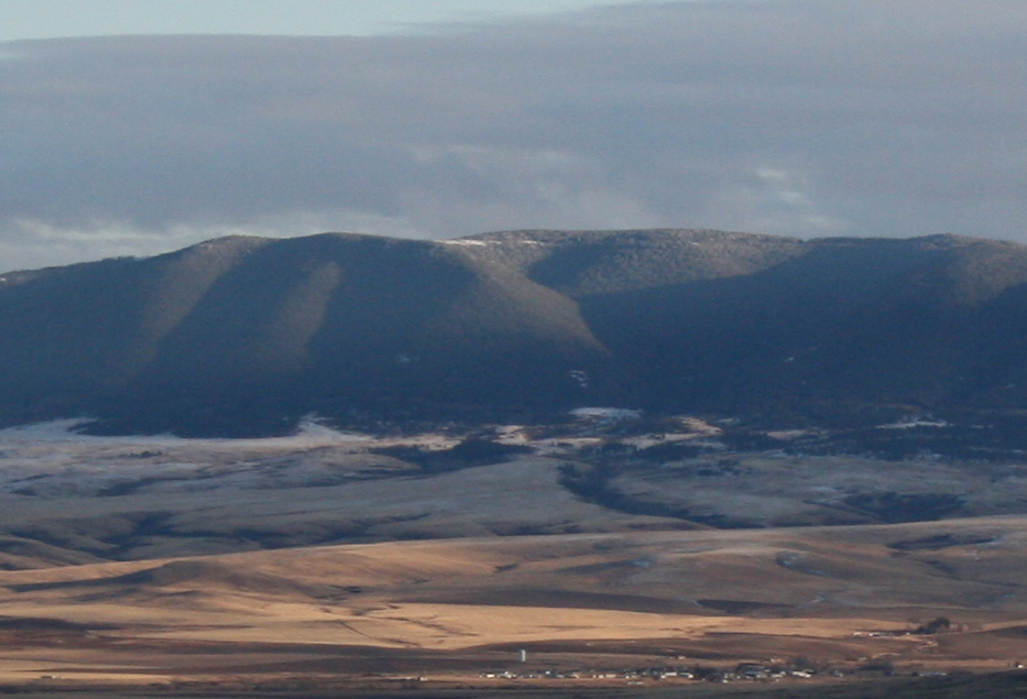 The Pryor Mountains, near Billings, Montana.